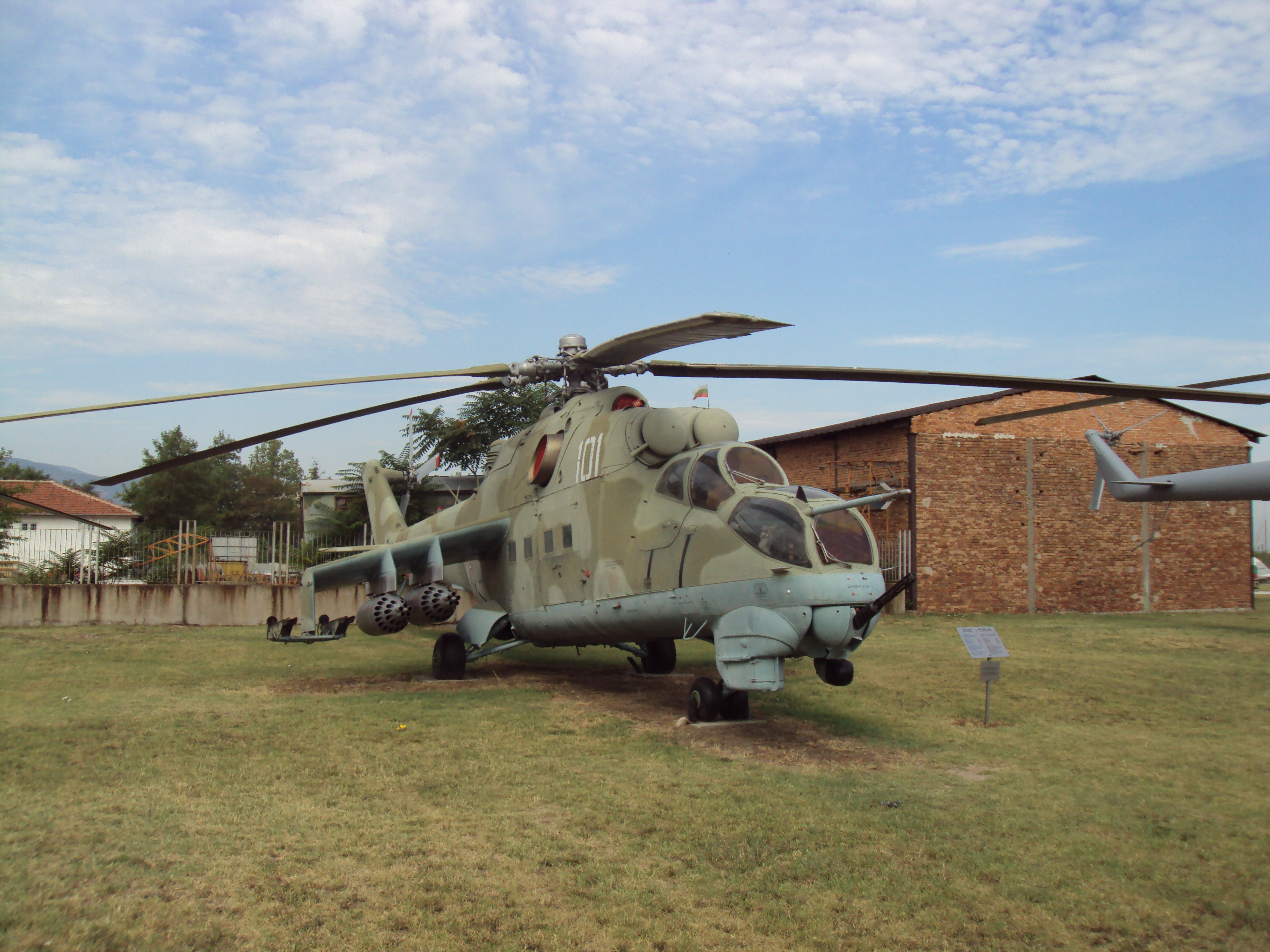 Aviation Museum in Plovdiv